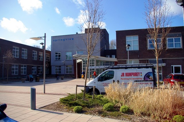 Springview